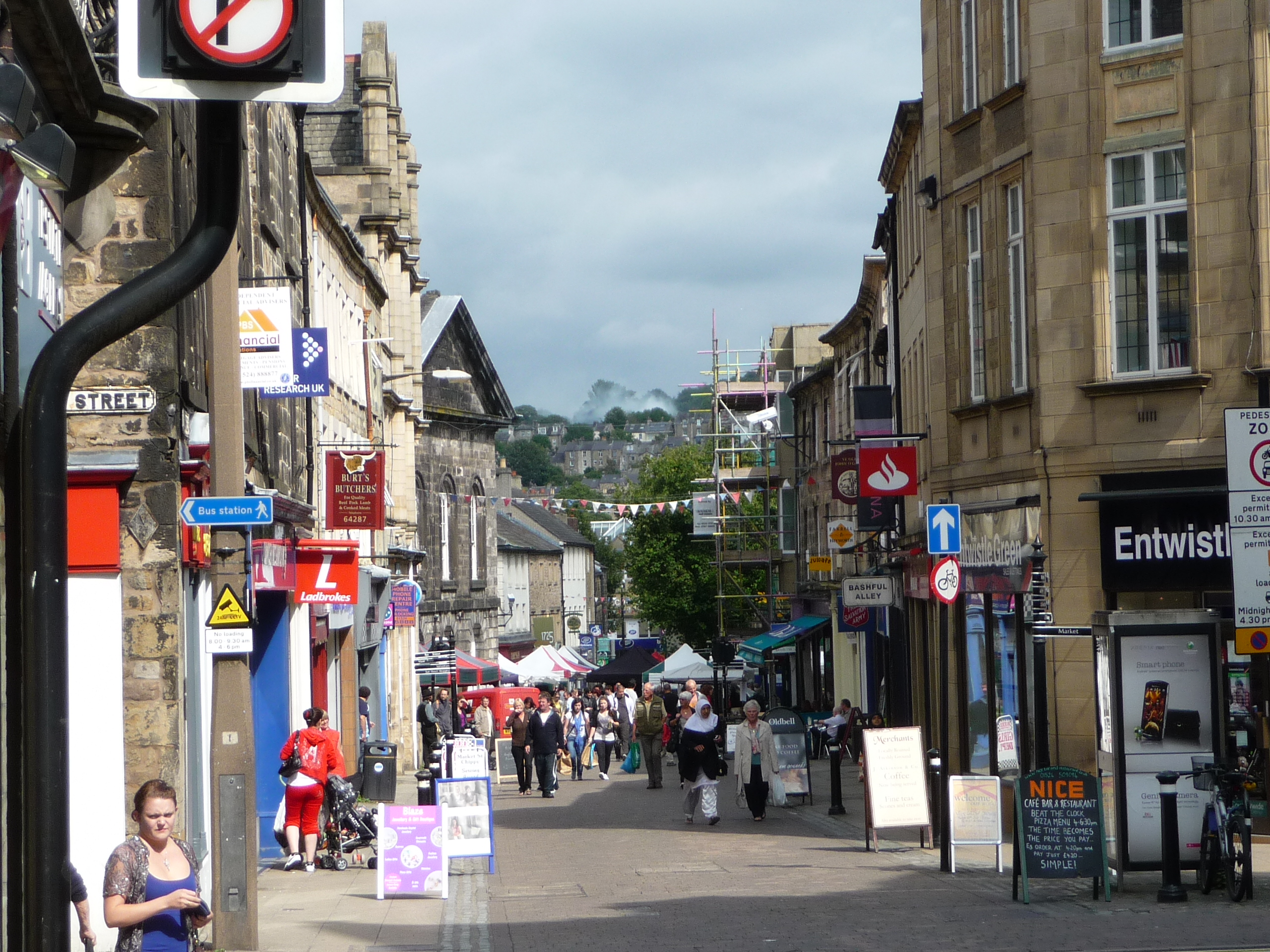 Lancaster (/ˈlæŋkəstər/, /ˈlænkæs-/) is the county town of Lancashire, England.